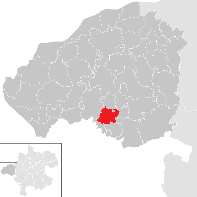 district Braunau am Inn